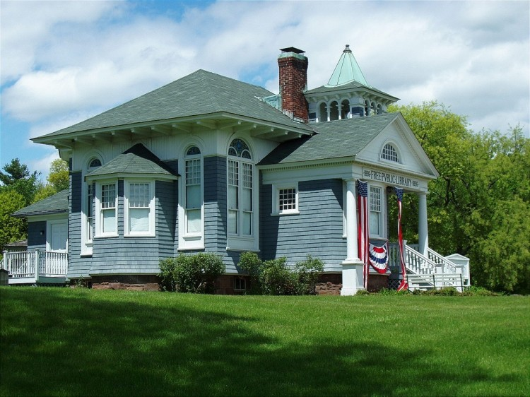 The former Free Public Library building, part of the Somers Historic District in Somers, Connecticut.